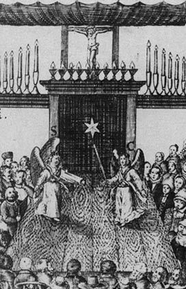 Scene from a Sacred Play